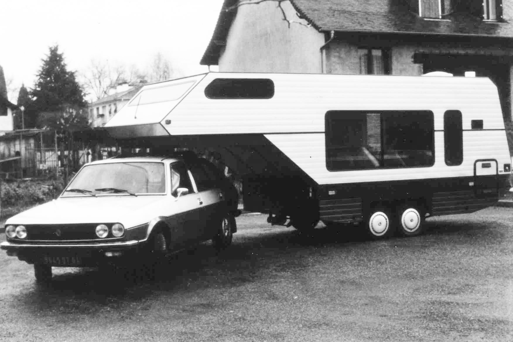 Z Formule